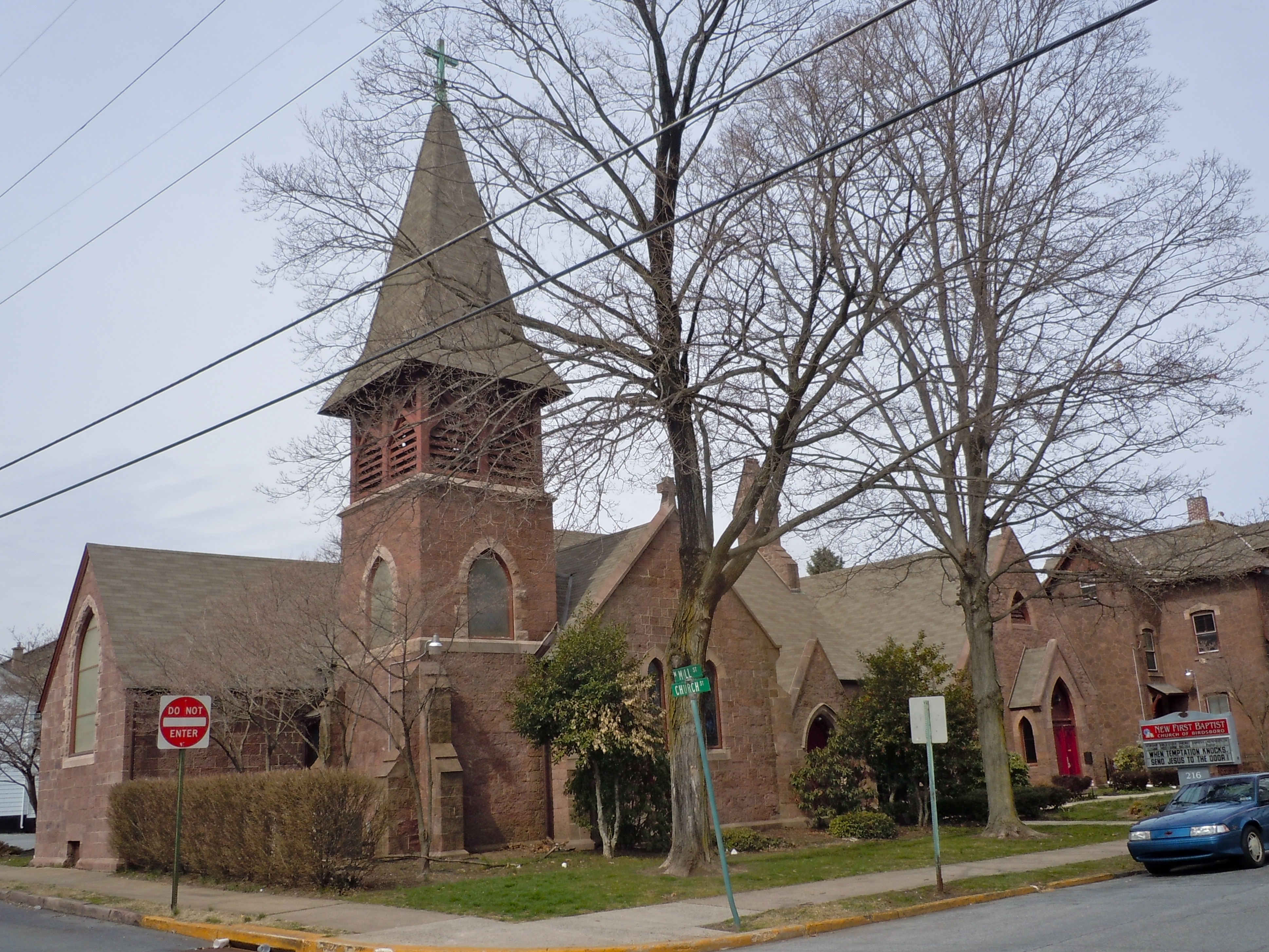 St. Michael's Protestant Episcopal Church, Parish House and Rectory site on the NRHP since December 20, 1982 at Mill and Church Streets, Birdsboro, Berks County, Pennsylvania. Designed by Frank Furness. Built by Levi H. Focht. Congregation was Episcopalian now Baptist.